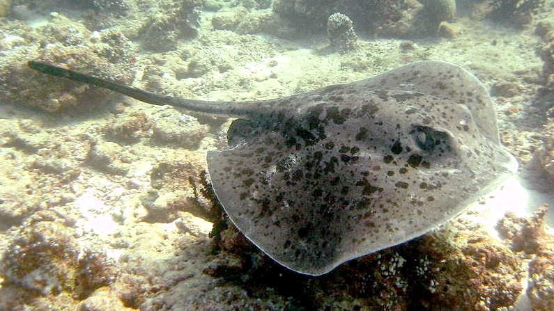 Blotched fantail ray (Taeniura meyeni) off the Maldives. This work has been released into the public domain by its author, fishx6. This applies worldwide. In some countries this may not be legally possible; if so: fishx6 grants anyone the right to use this work for any purpose, without any conditions, unless such conditions are required by law.